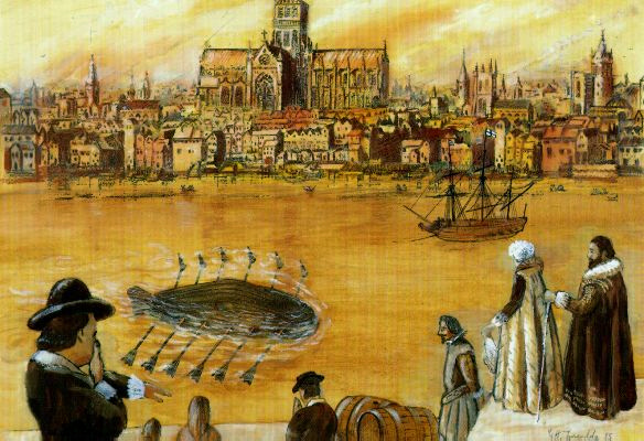 Drebbel's first submarine. 17th century.